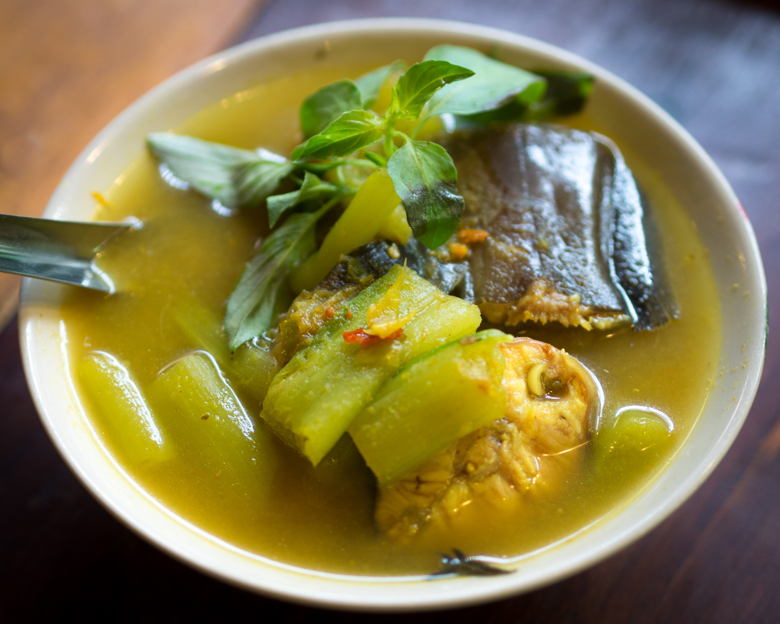 Kaeng tun (Thai script: แกงตูน), a northern Thai curry made with the stalks of the Colocasia gigantea Hook and catfish.